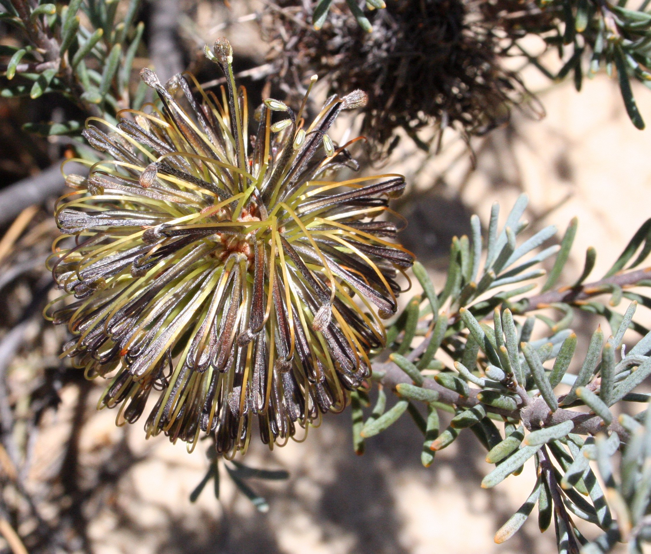 A paler inflorescence of banksia violacea, also some leaves